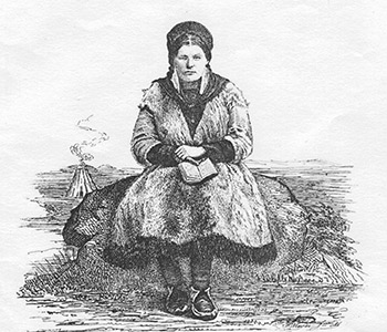 Maria magdalena Mathsdutter from an 1864 newspaper